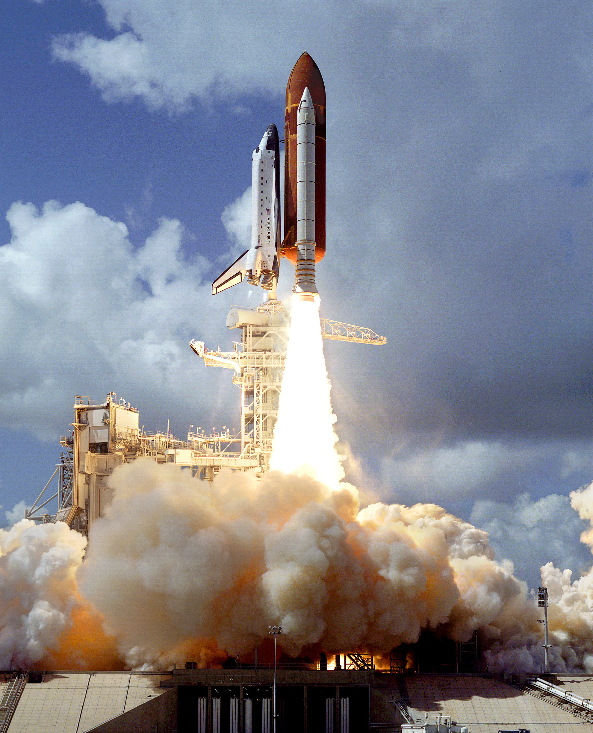 STS-34 launch from LC 39B (side view).